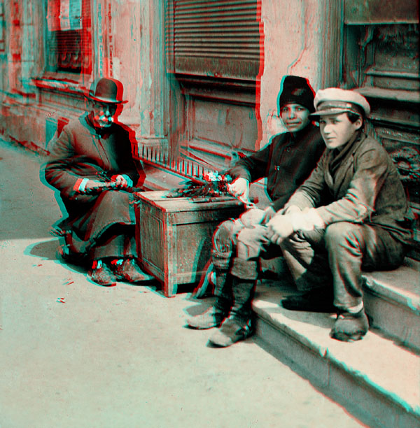 Poland – A Street-Shoemaker 1915